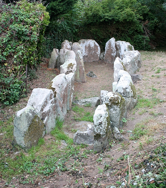 Dolmen de Mont Ube. A Neolithic chambered grave with four internal cells inside the circular chamber. Built around 6000 years ago, it was found to contain burnt bone, polished stone axes and fragments of decorated pottery. It was excavated in 1848.